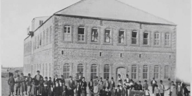 image of "Evangelical School" one of the oldest schools in Homs